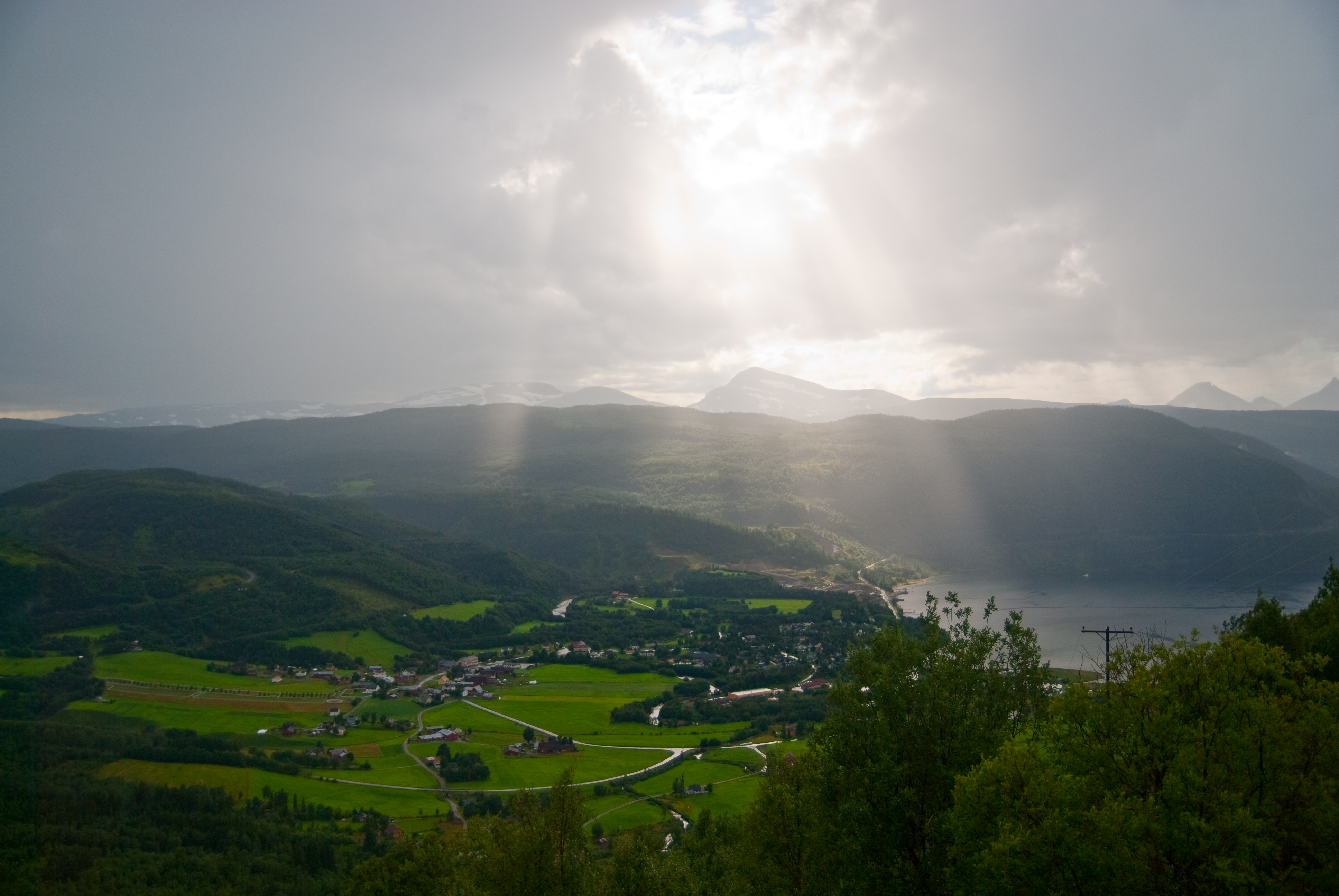 Picture of Misvær taken from a nerby hill